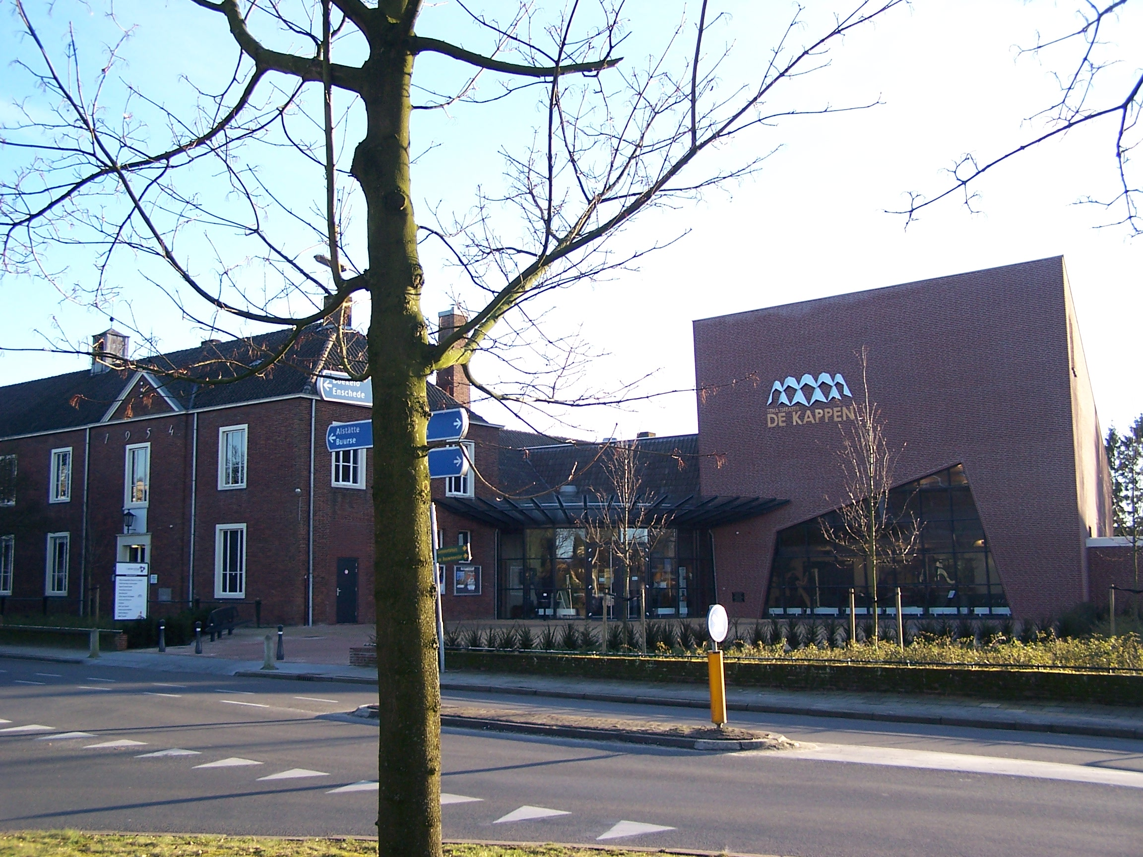 Image from the town of Haaksbergen. Theater 'De Kappen'.